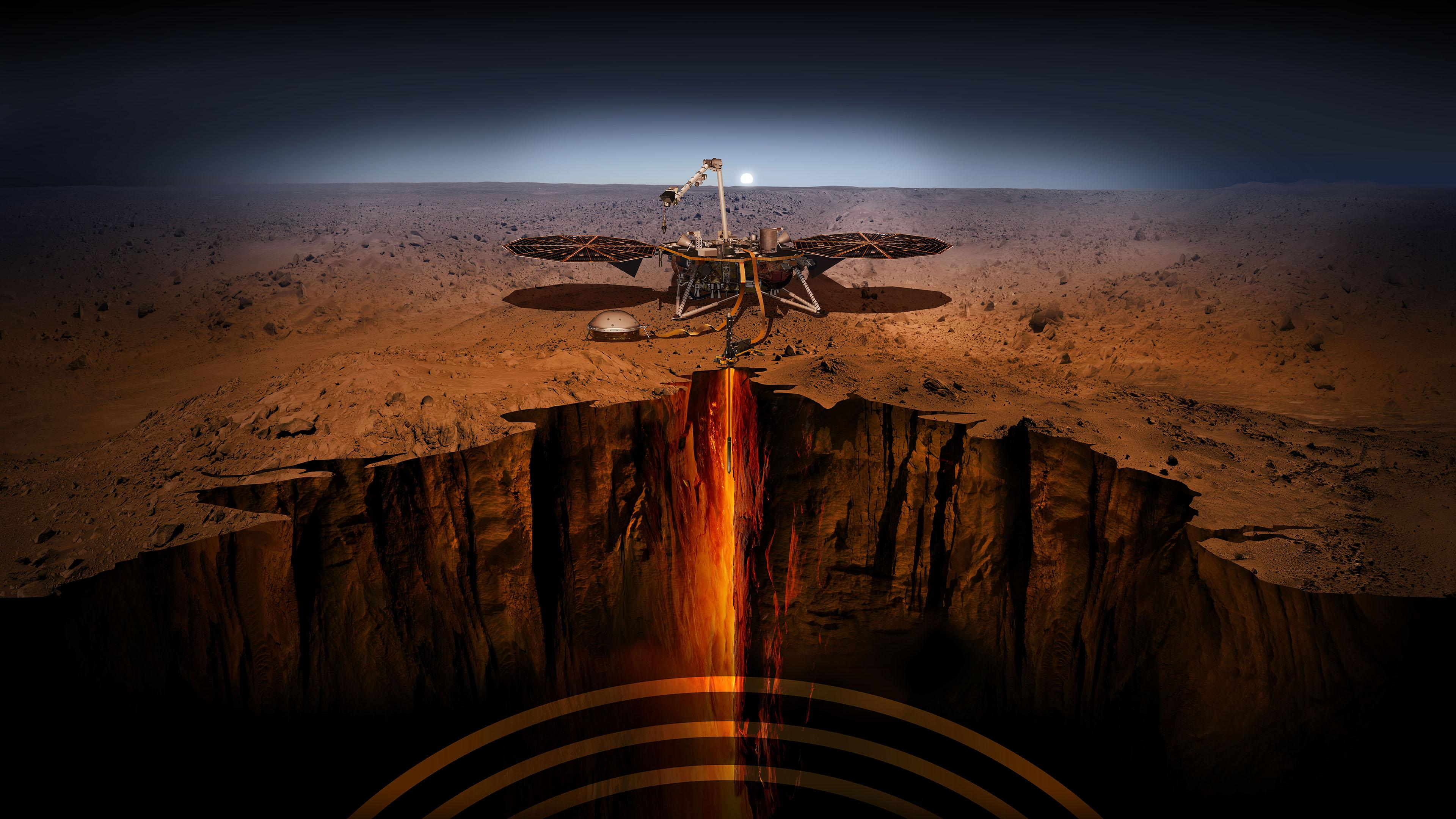 PIA22745: InSight - Artist's Illustration This artist's illustration depicts NASA's InSight lander on Mars. InSight, short for Interior Exploration using Seismic Investigations, Geodesy and Heat Transport, is designed to give the Red Planet its first thorough check up since it formed 4.5 billion years ago. The mission will look for tectonic activity and meteorite impacts, study how much heat is still flowing through the planet, and track Mars' wobble as it orbits the sun. While InSight is a Mars mission, it's more than a Mars mission. InSight will help answer key questions about the formation of the rocky planets of the solar system. NASA's Jet Propulsion Laboratory, a division of Caltech in Pasadena, California, manages the InSight Project for NASA's Science Mission Directorate, Washington. Lockheed Martin Space, Denver, Colorado built the spacecraft. InSight is part of NASA's Discovery Program, which is managed by NASA's Marshall Space Flight Center in Huntsville, Alabama. For more information about the mission, go to